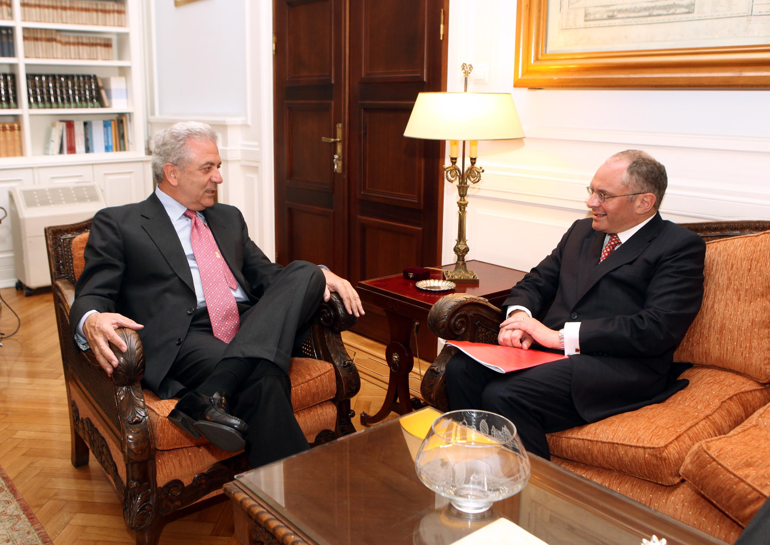 On Thursday, July 19, 2012, Foreign Minister Dimitris Avramopoulos (left) met the Ambassador of the United Kingdom David Landsman at the Ministry of Foreign Affairs.